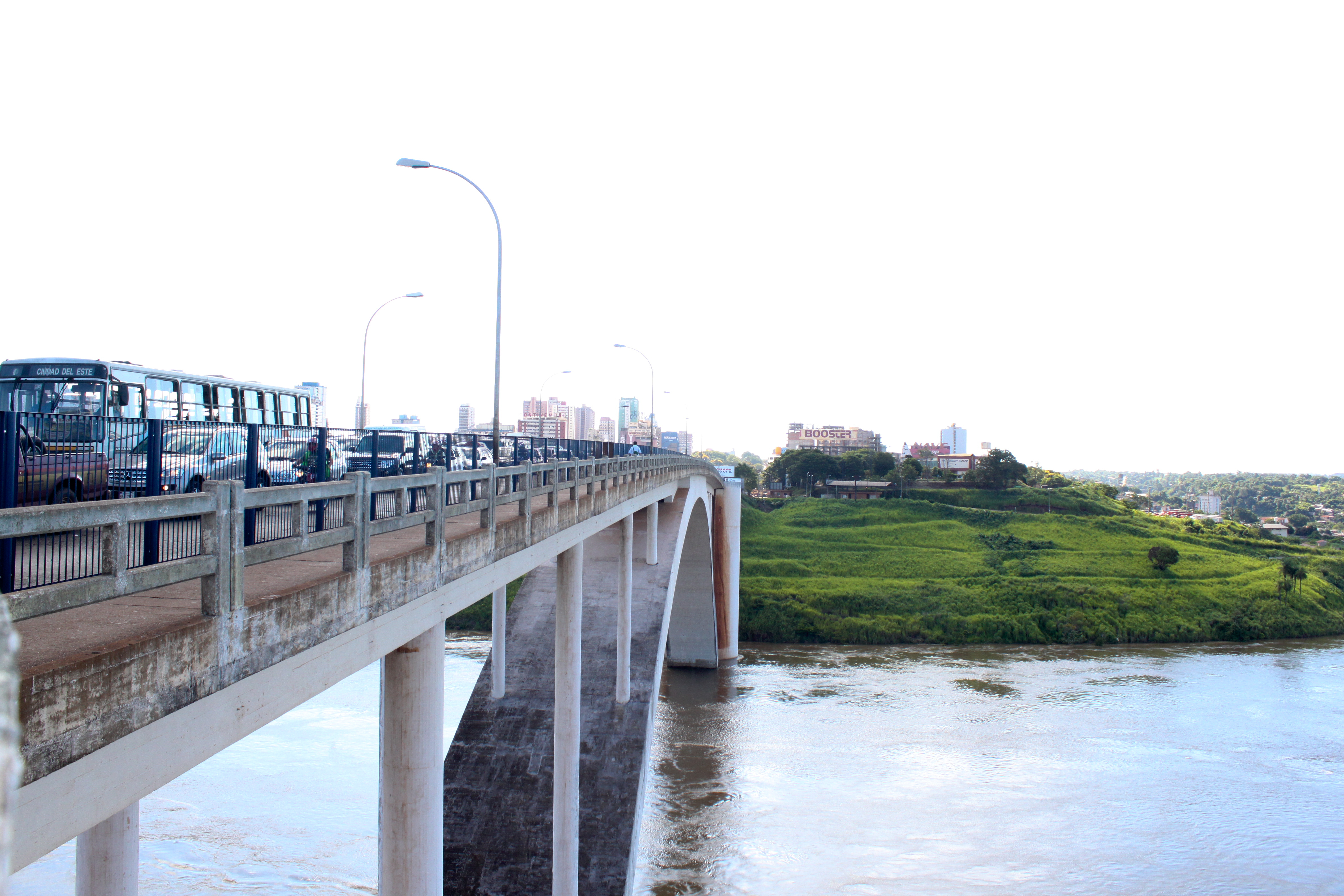 The Friendship Bridge between Brazil and Paraguay